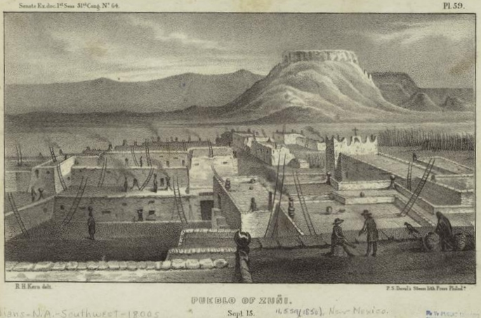 Zuni Pueblo, Sept. 15, 1850. Lithograph of the adobe pueblo complex in the then New Mexico Territory, and present day western U.S. state of New Mexico. Printed on border: "Senate Ex. doc. 1st Sess. 31 st Cong. No. 64" "Pl. 59." "R.H. Kern delt. P.S. Duval's Steam lith. Press Philada." Kern, Richard H., 1821-1853, artist; Duval, Peter S., 1804 or 5-1886, lithographer.